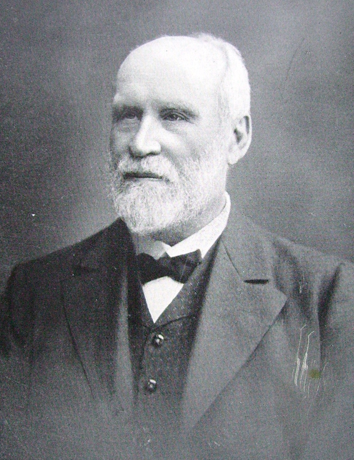 Picture of Ragnar Törnebladh, Swedish politician was rector of school